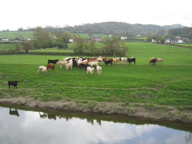 Cattle beside the River Severn. Looking south from 160285 with quite a colourful mixture of young cattle on the banks of the river. Behind is Bausley Hill at the eastern end of the Breiddens.